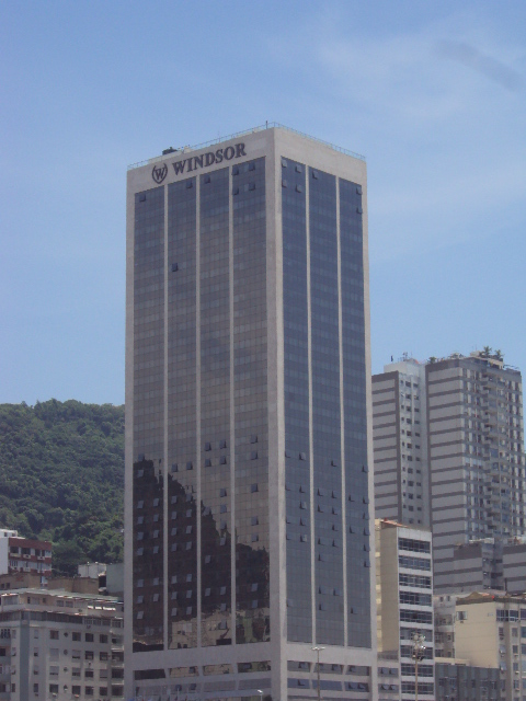 Windsor Hotel, located in Atlântica Avenue, in Leme neighborhood, Rio de Janeiro city, Brazil.